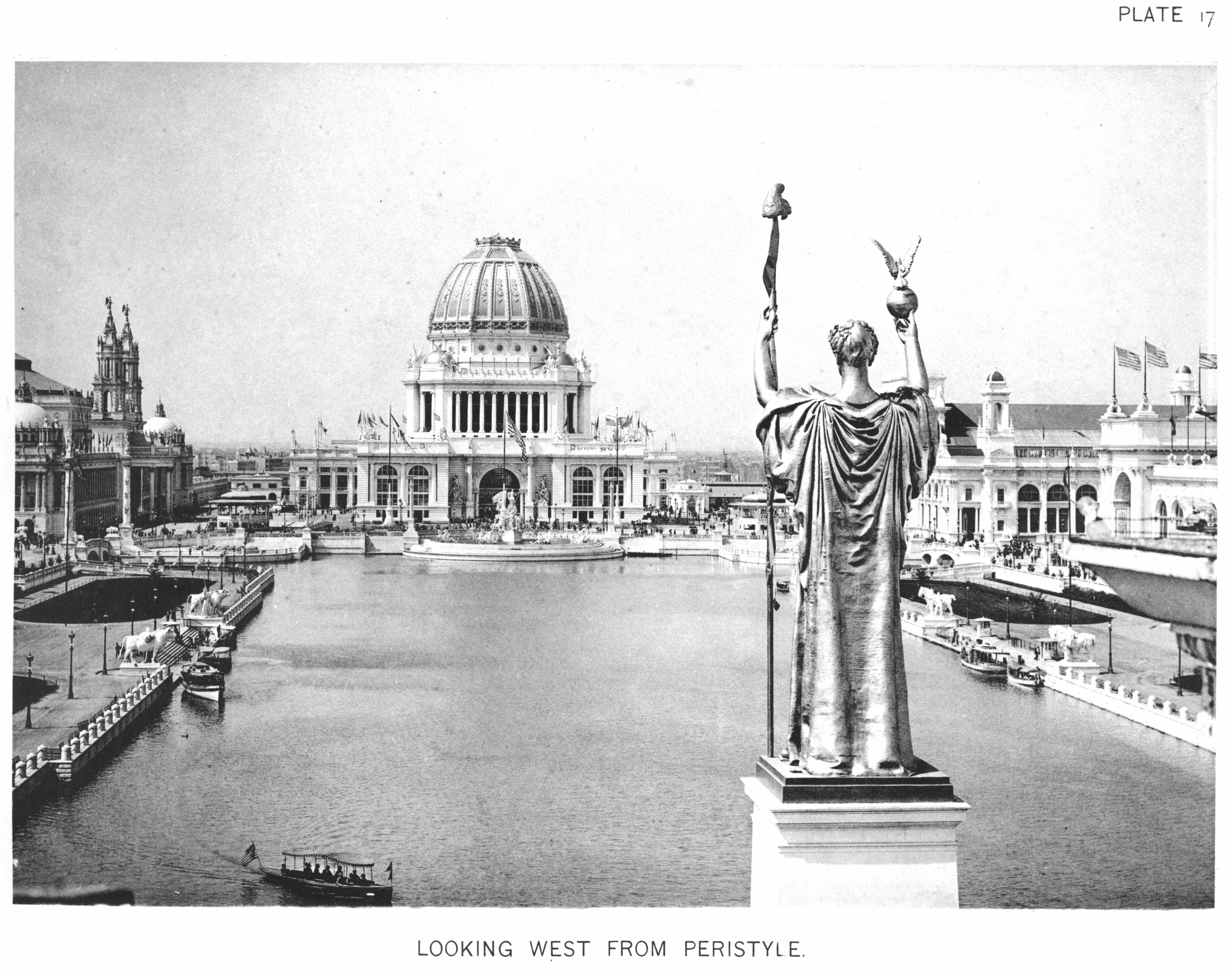 Official Views Of The World's Columbian Exposition: Looking West From Peristyle